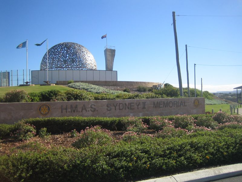 Memorial in Geraldton WA to the second HMAS Sydney, sunk with all hands in a battle with HSK Kormoran.